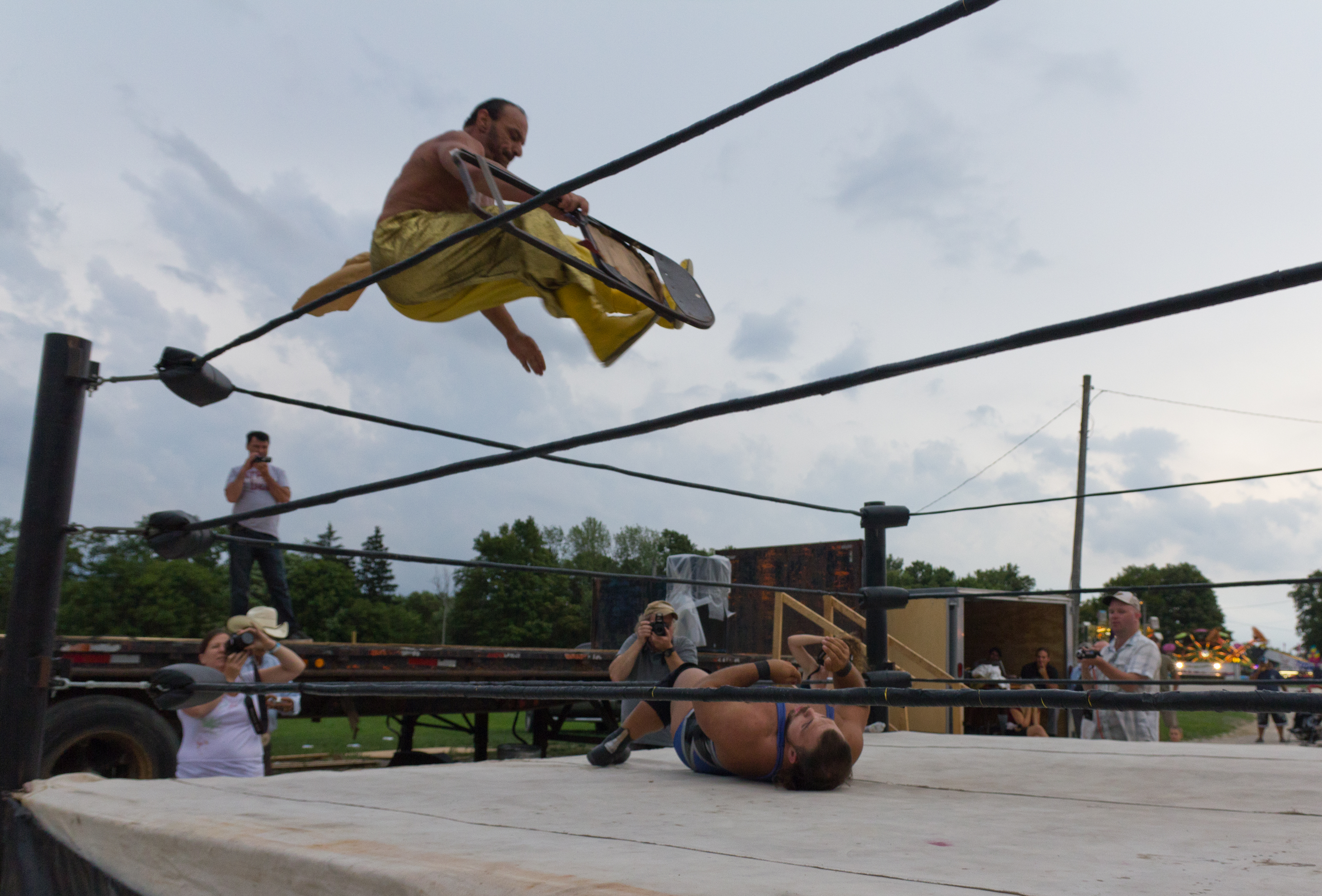 Professional wrestler Sabu (real name Terry Brunk) delivering an Arabian Facebuster (leg drop with a chair involved) to Michael Elgin